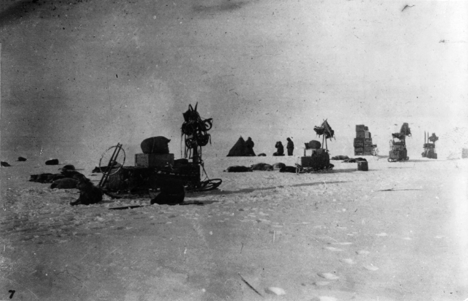 Original caption: “ Discovery and explorations of the South Pole by Capt. Roald Amundsen and crew, 1910-11: A photograph of another of the expedition's camps on the way to pole. ” Reproduction Number: LC-USZ62-70485